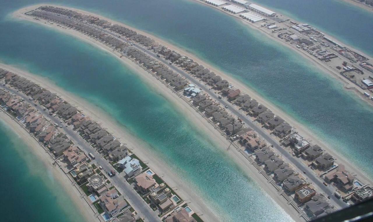 This is a photo showing the fronds on the Palm Jumeirah in Dubai, United Arab Emirates as seen from the air on 1 May 2007.